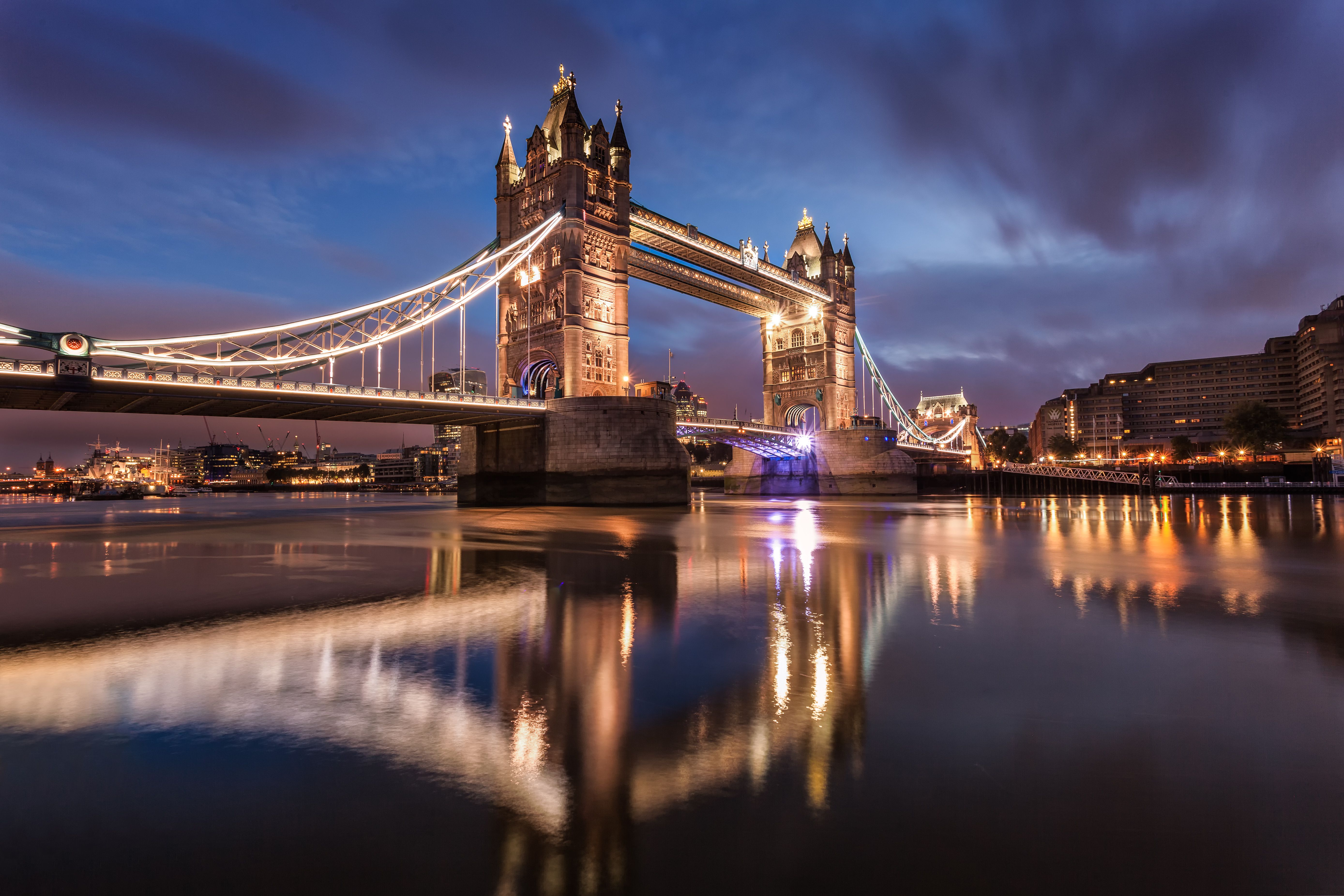 Tower Bridge: pre-dawn light over London's most iconic landmark.